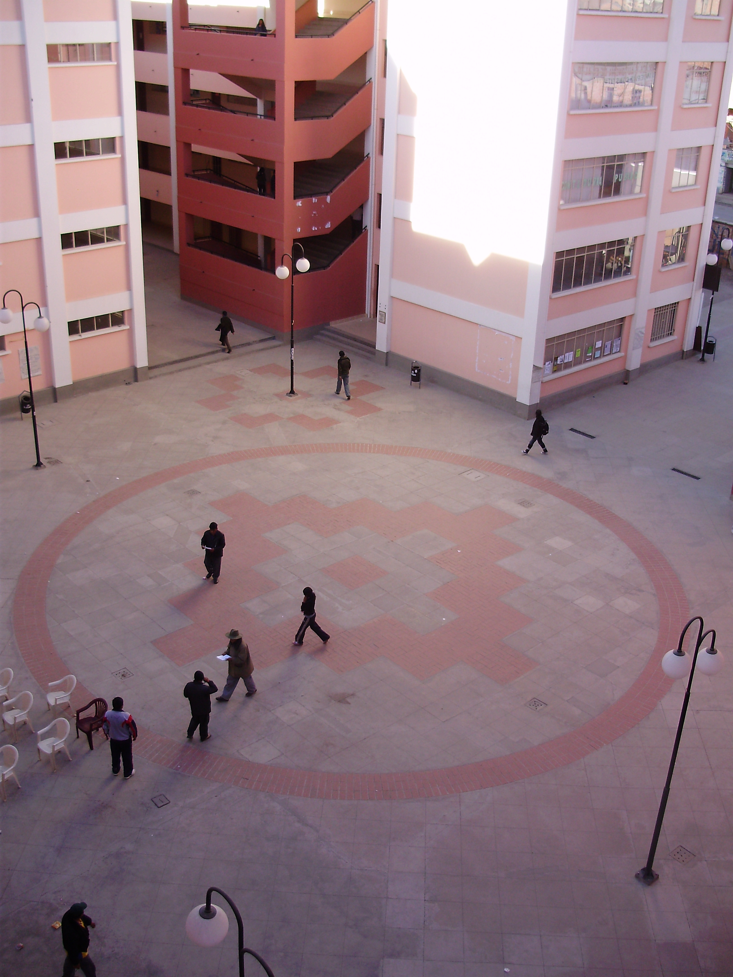 Chakana pattern - UPEA (El Alto Public University), Bolivia